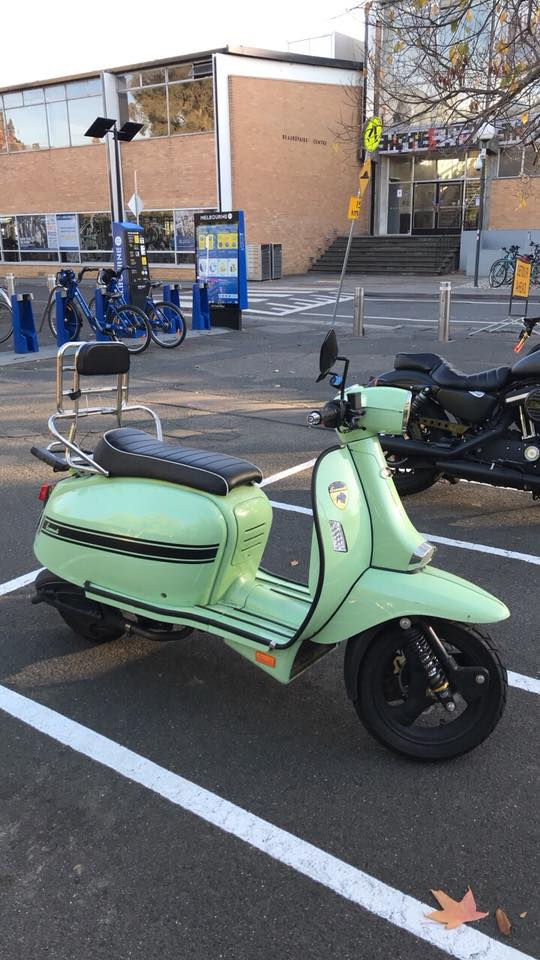 Scomadi Motor scooter